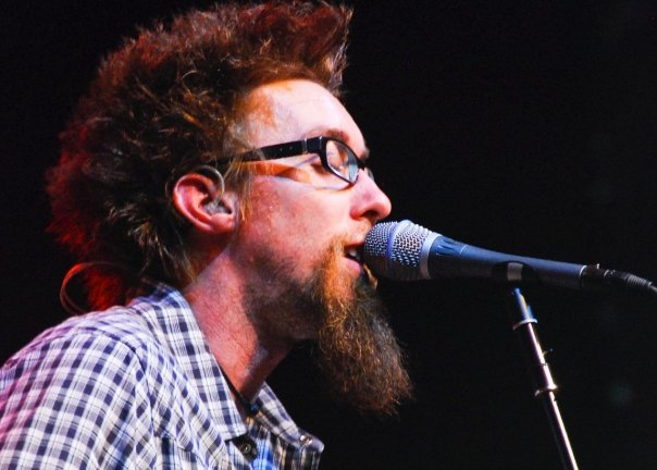 I am the originator of this photo. I hold the copyright. I release it to the public domain. This photo depicts American musician David Crowder performing in Lincoln, Nebraska.